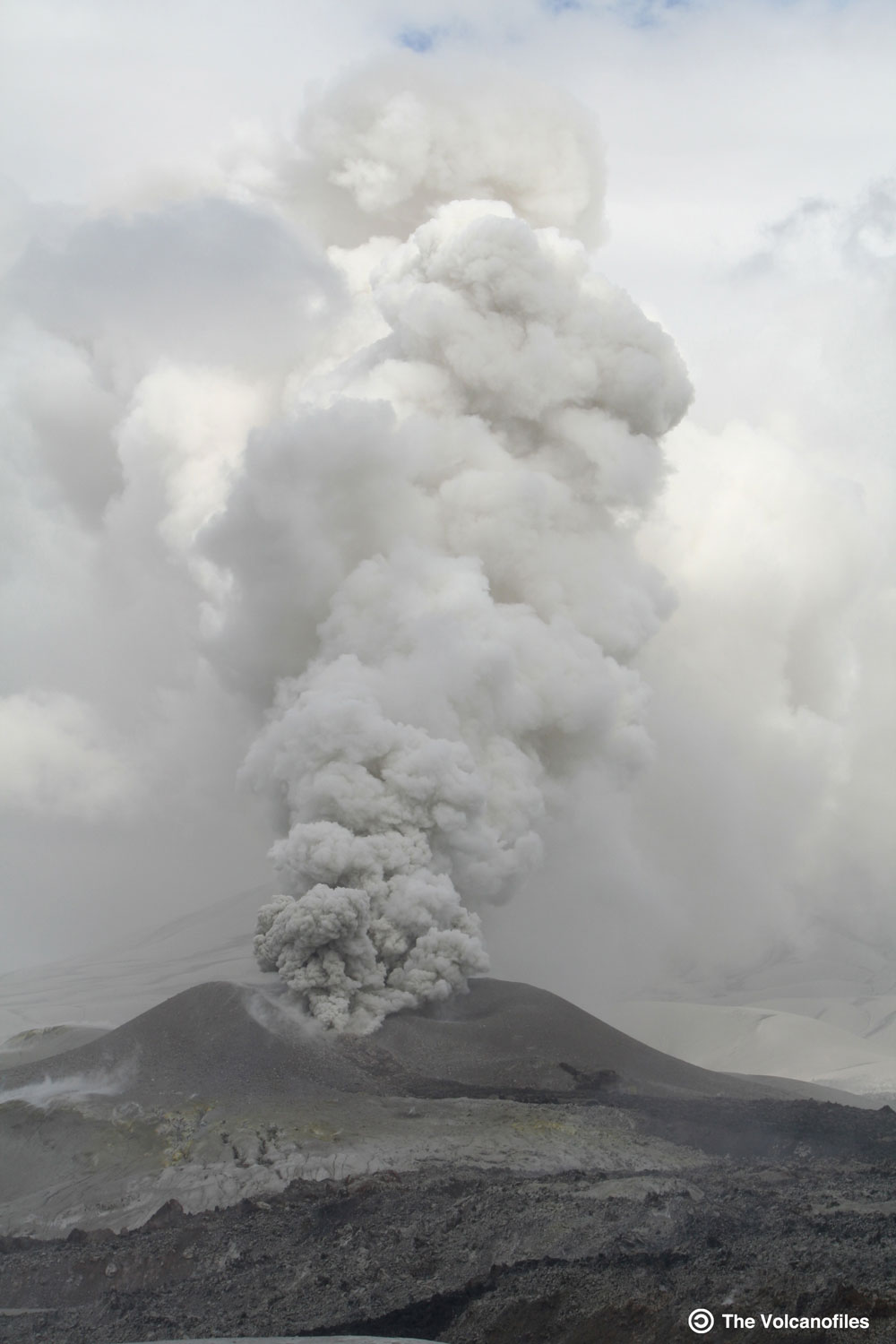 Erupting vent of Puyehue Cordon Caulle volcano in southern Chile in Februay, 2012 taken by The Volcanofiles.jpg